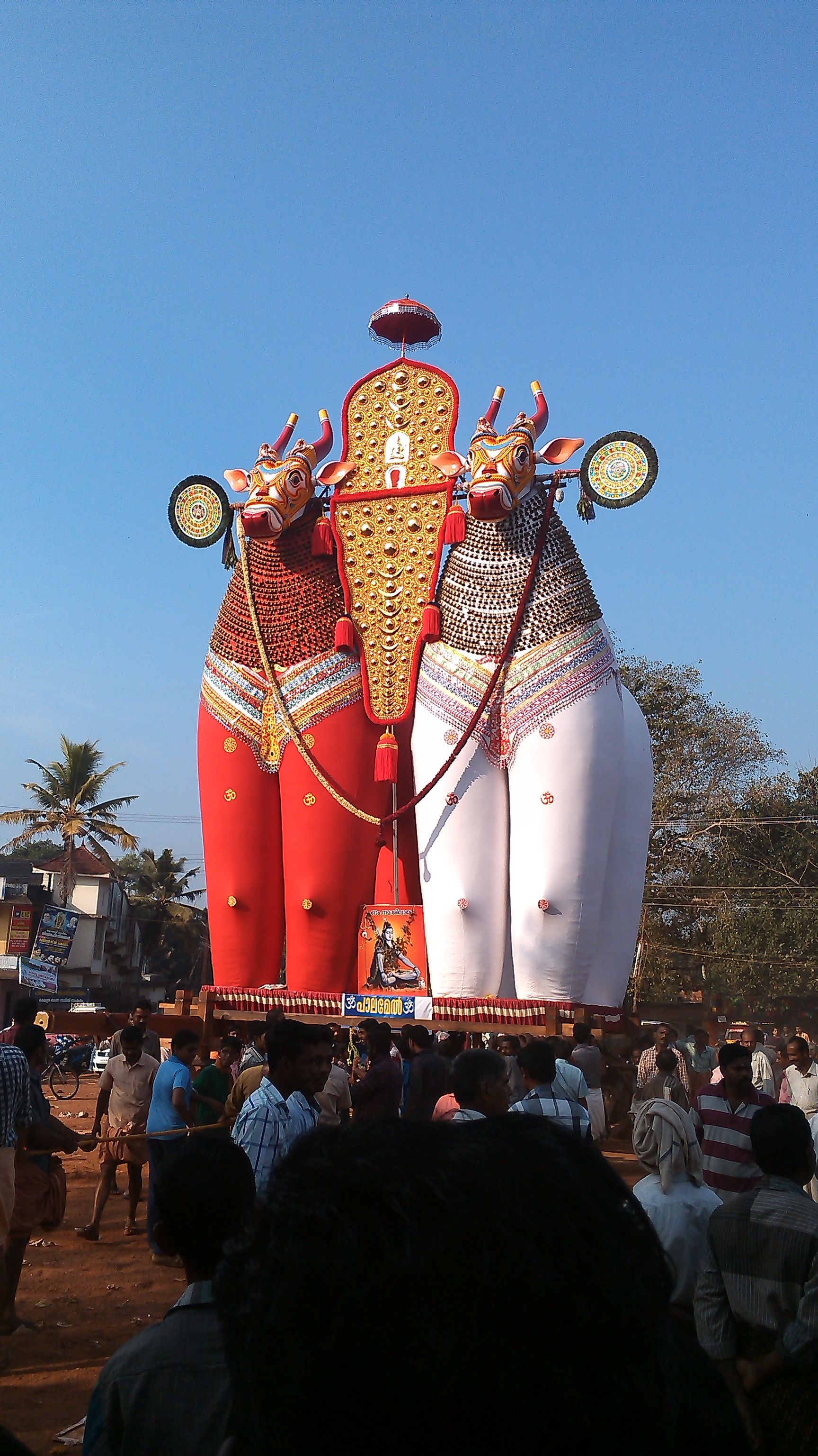 palamel